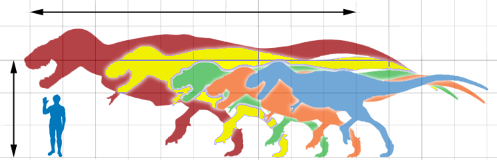 Sizes of various Tyrannosauridae, with human to scale Legend: Tyrannosaurus rex Tarbosaurus bataar Albertosaurus sarcophagus Daspletosaurus torosus Gorgosaurus libratus